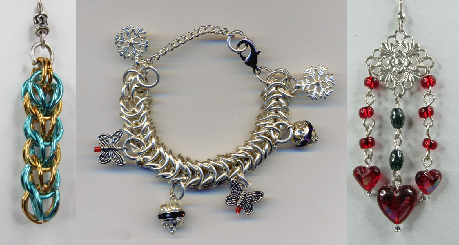 Jewellery items made by my wife and myself. LEFT: an earring in a chain maille weave called Full Persian, using blue and gold anodised aluminium jump rings (aluminium never tarnishes!). MIDDLE: a charm bracelet in silver-plated copper jump rings, in a chain maille weave called Box. RIGHT: an earring in glass beads (we didn’t make the silvery plate they hang on). Note: The technique of weaving jump rings is spelled “chain maille” from the French word maille (meaning “mesh”). The Wikipedia article headed “Chain mail” mainly talks about soldiers uniforms for which the spelling Chain mail is correct. However for jewellery Chain maille is the spelling.